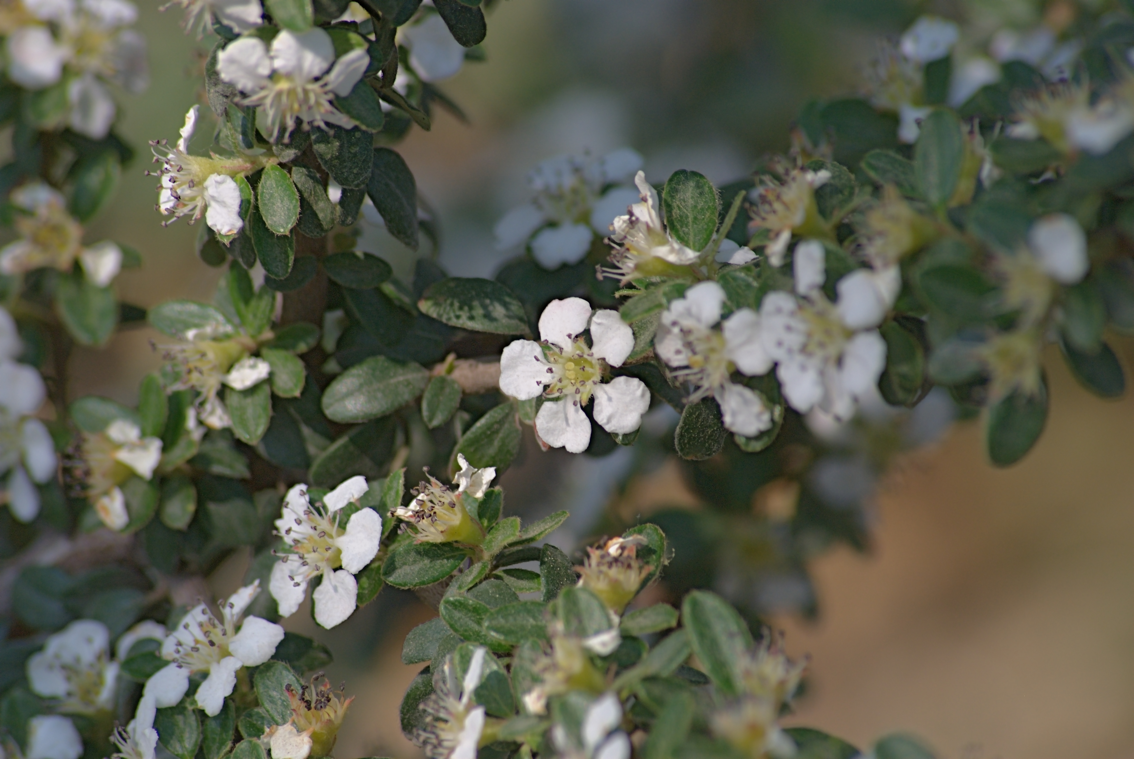 Cotoneaster microphyllus flowers